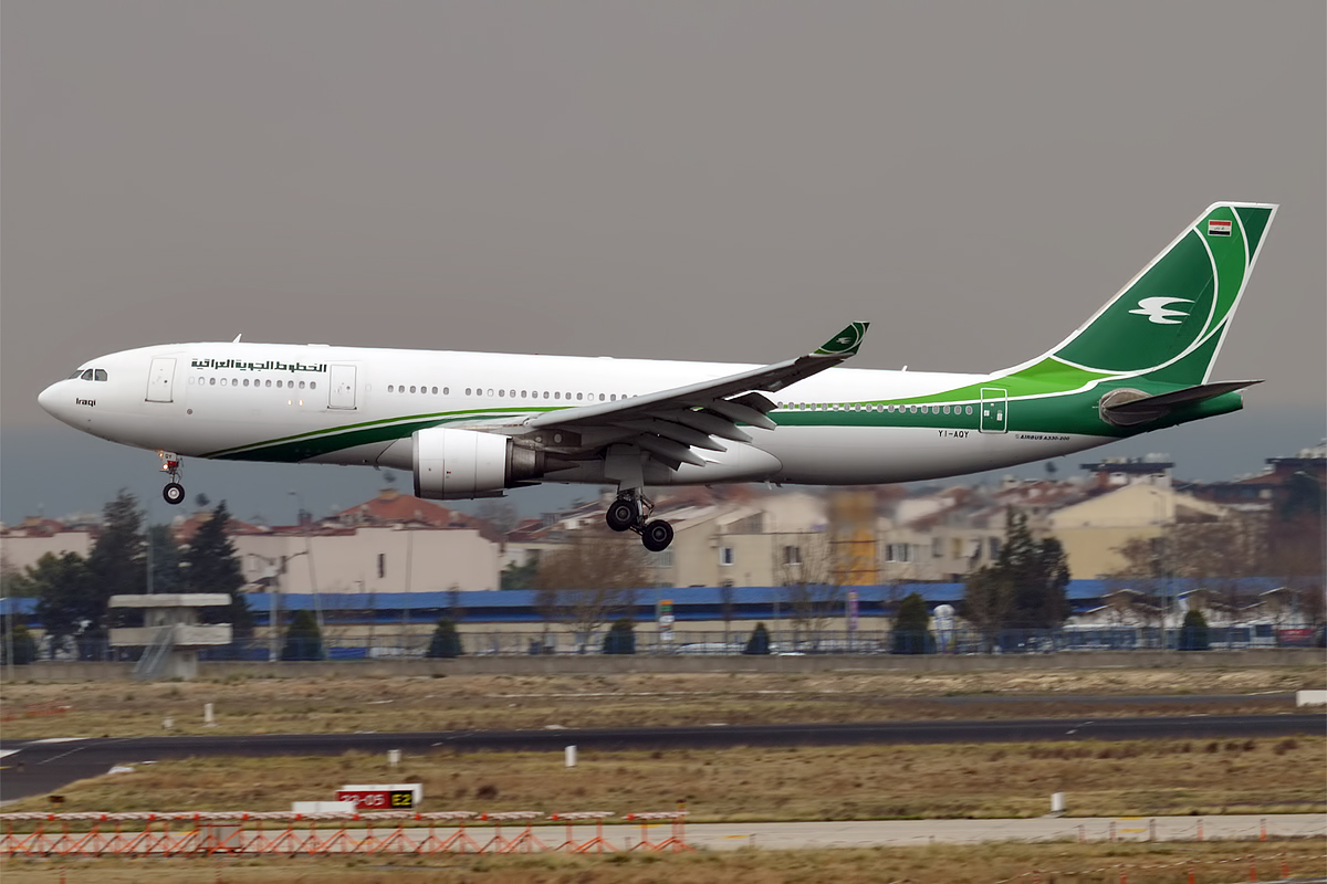 Iraqi Airways, YI-AQY, Airbus A330-202